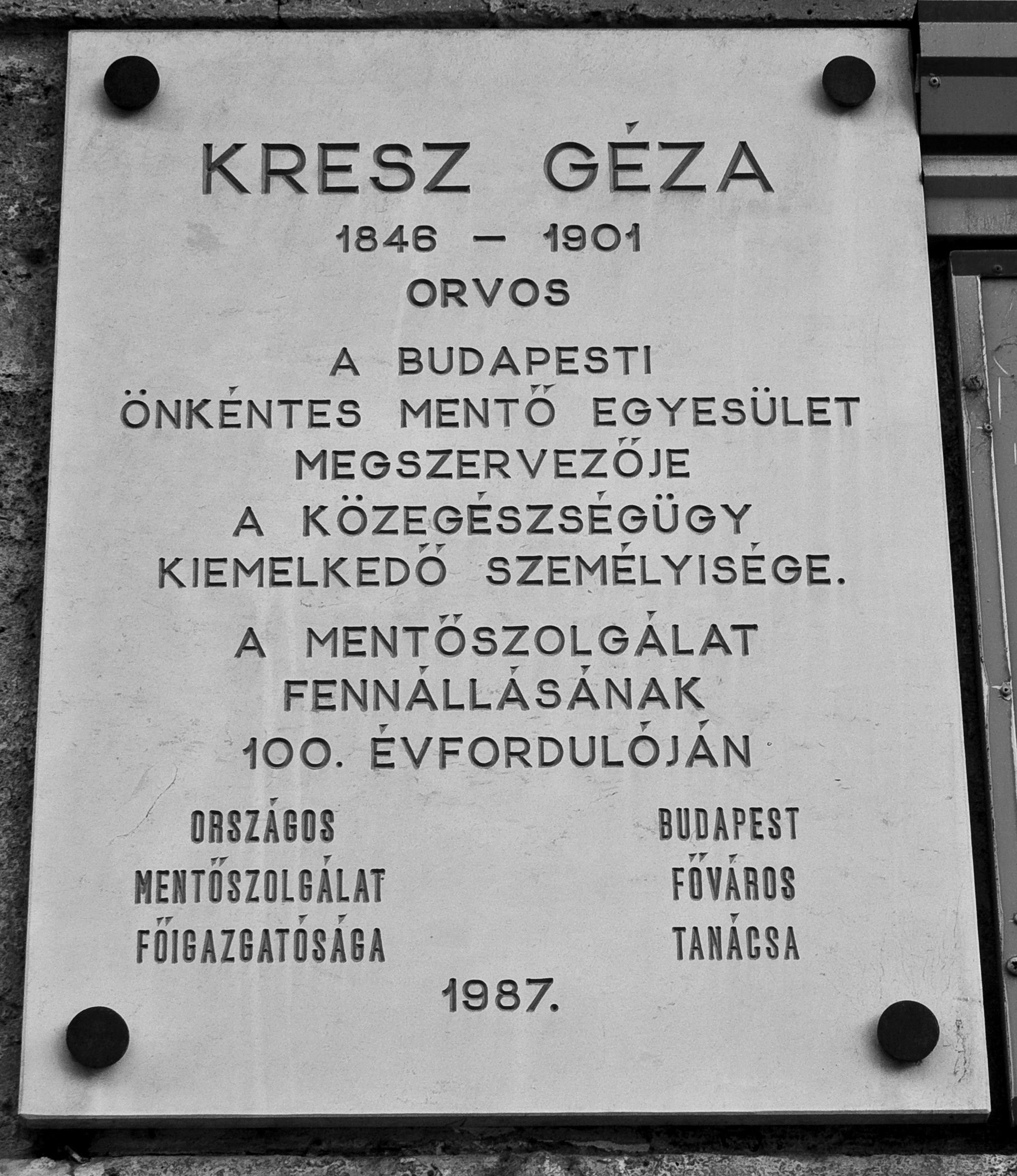 Commemorative plaque of Géza Kresz in Budapest District XIII, Kresz Géza Street No 38